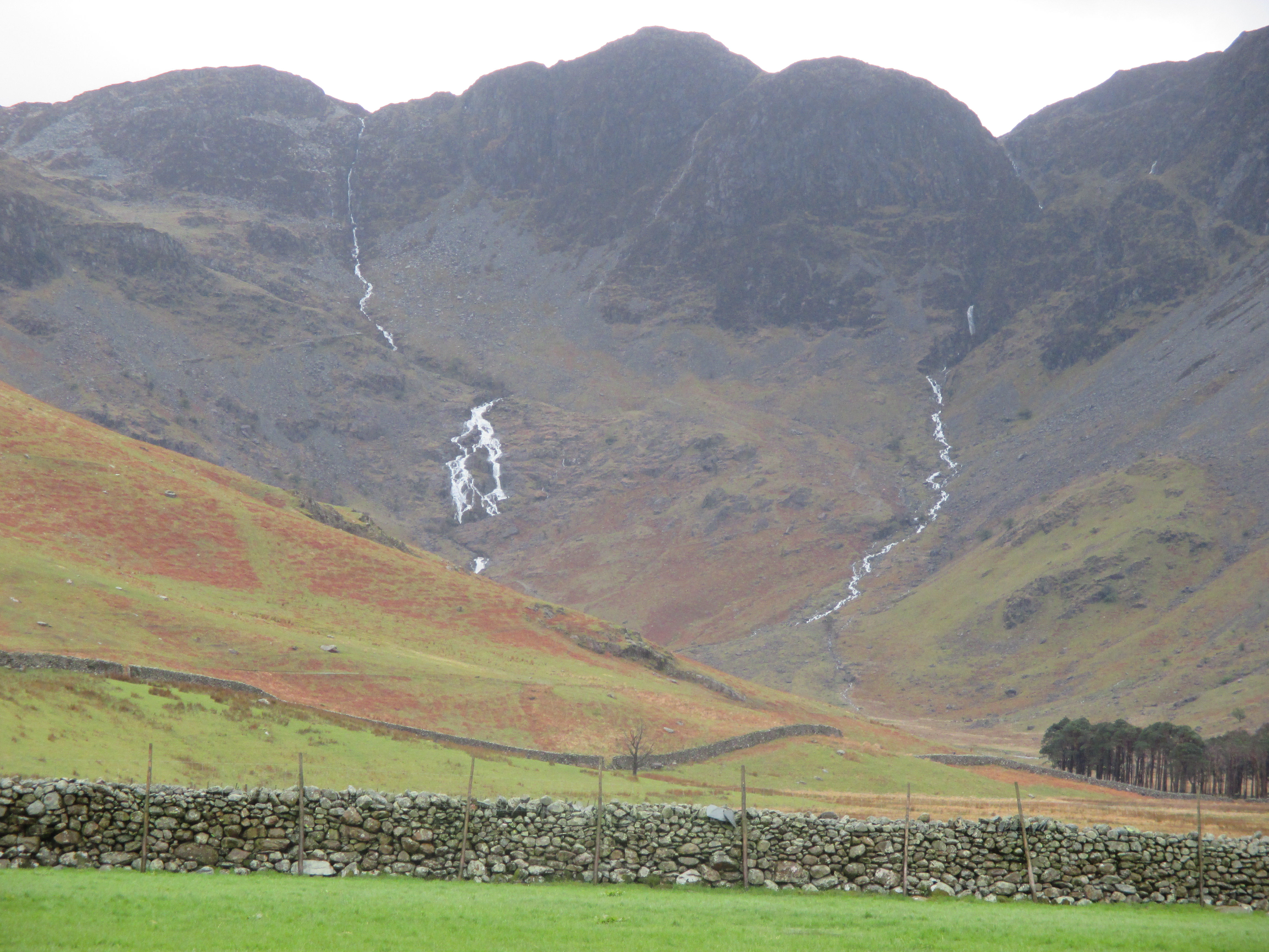 Warnscale, at the head of Buttermere, Cumbria, photographed from the north-west, near Gatescarth Farm. The stream on the left is Warnscale Beck.